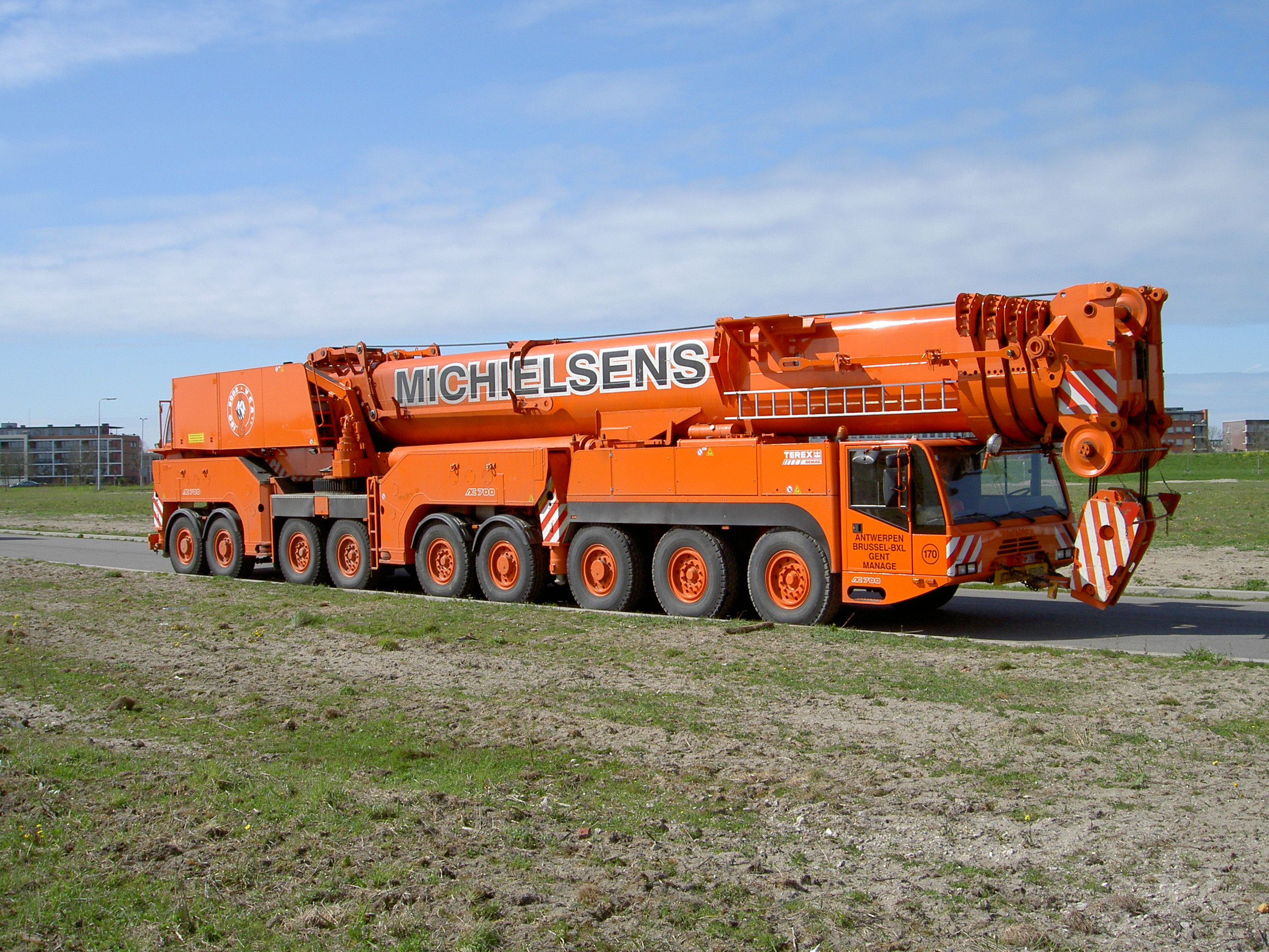 Terex-Demag Telescopic all terrain crane